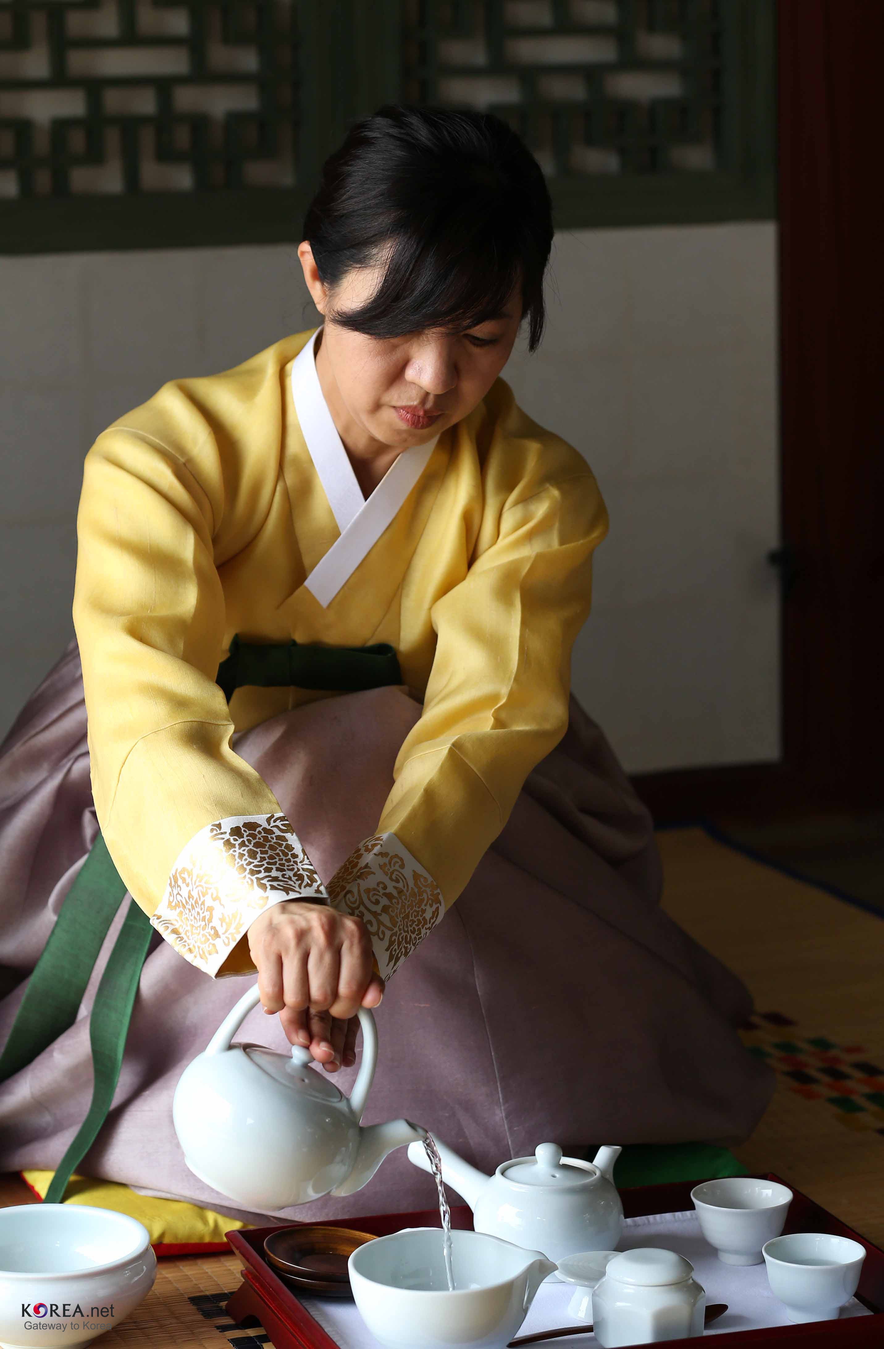 Royal Place in Korea Changgyeonggung , Seoul, Korea 2013.06.07. Ministry of Culture, Sports and Tourism Korean Culture and Information Service Jeon Han -Related Article- English Royal experience for a night at Seoul palace 궁궐에서의 하룻밤, 창경궁 창경궁, 서울 문화체육관광부 해외문화홍보원 코리아넷 전한